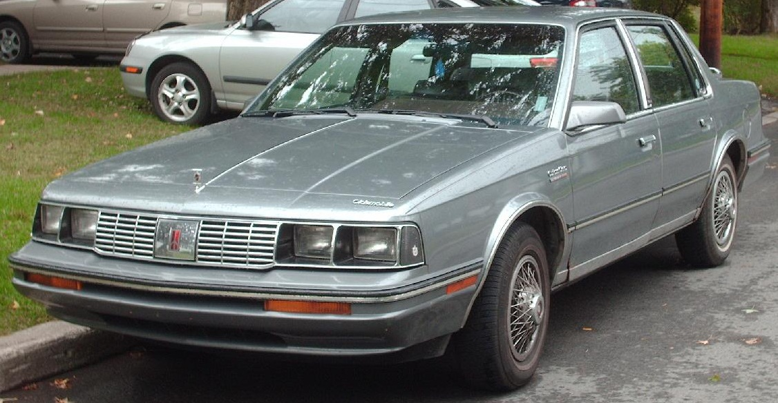 1985-1986 Oldsmobile Cutlass Ciera photographed in Pointe Claire, Quebec, Canada.